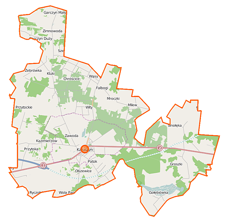 Map of Gmina Kałuszyn, Poland This map of Kałuszyn (gmina) was created from OpenStreetMap project data, collected by the community. This map may be incomplete, and may contain errors. Don't rely solely on it for navigation. Border coordinates52.296321.7313←↕→21.949052.1655